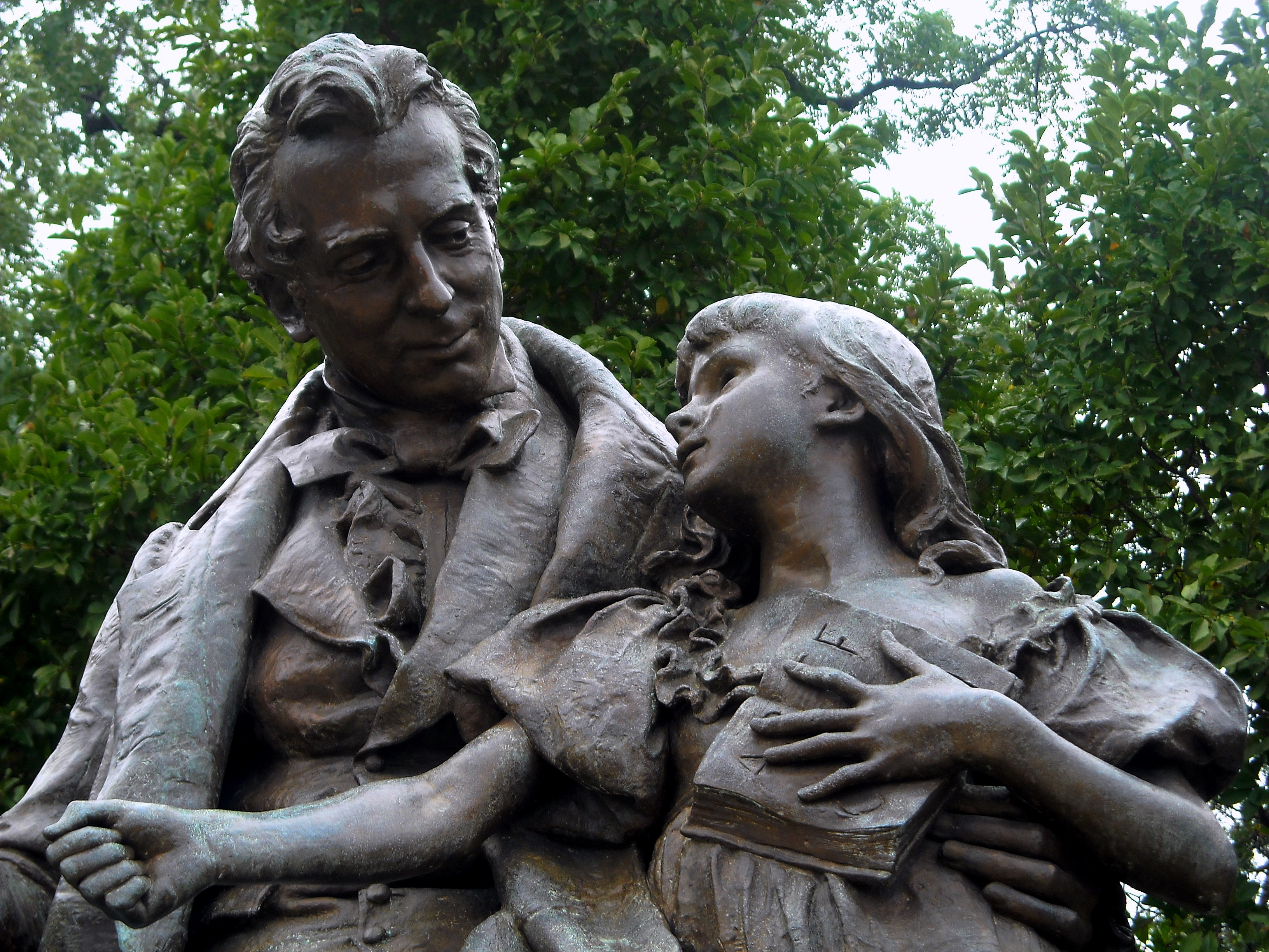 A sculpture portraying Thomas Hopkins Gallaudet teaching Alice Cogswell the manual letter "A". The memorial is located on the campus of Gallaudet University in Washington, D.C. It was sculpted by Daniel Chester French in 1889 and is a contributing property to the Gallaudet College Historic District.